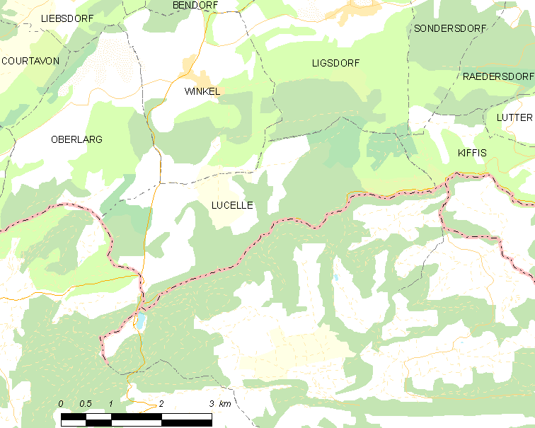 Map of French municipality